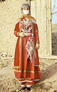 Taraz (national costume) of an Armenian woman from the district of Chahar-Mahal. The mouth-cover is an Islamic influence.